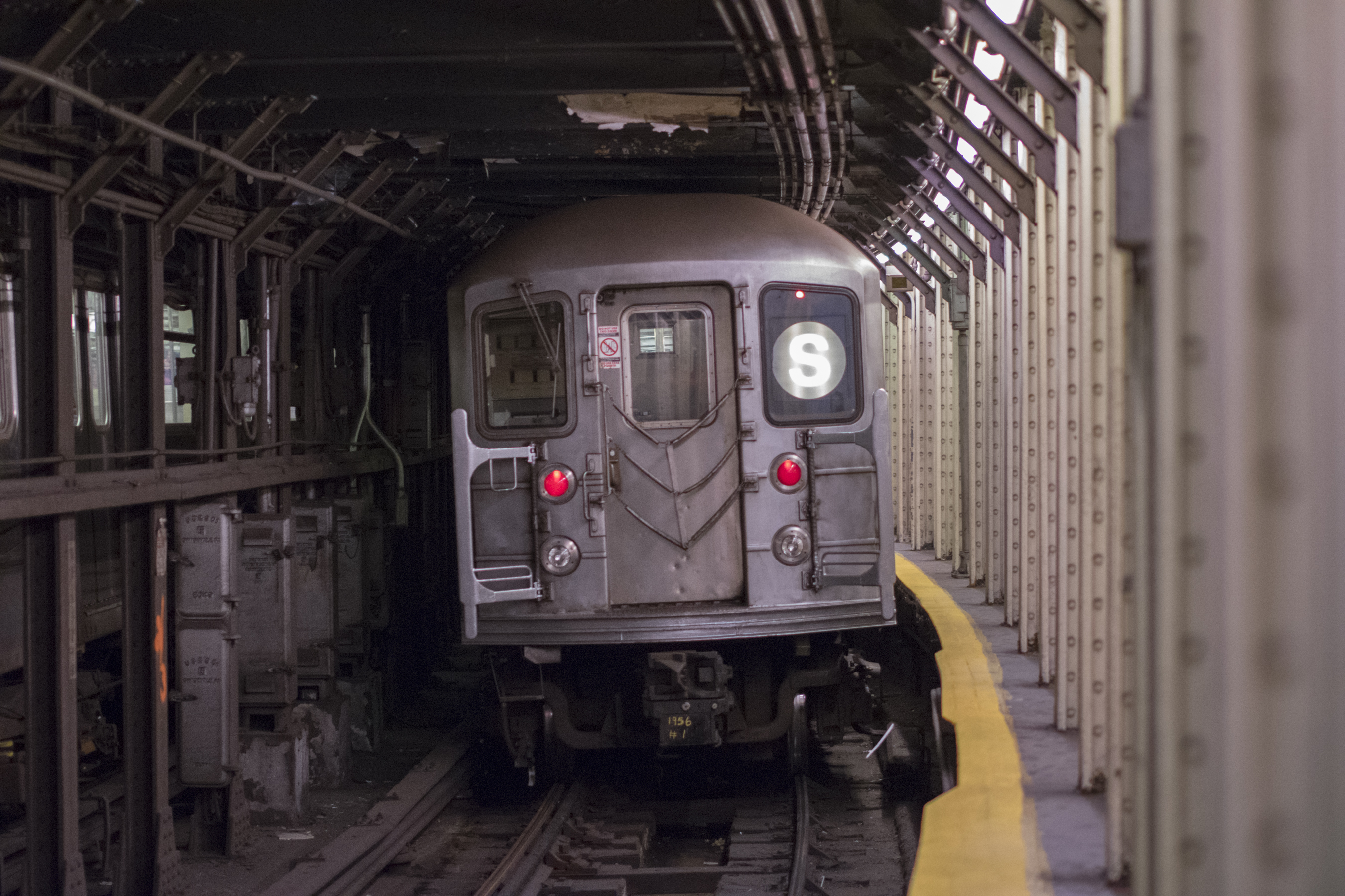 A consist of Bombardier R62As at Times Square- 42nd Street on Track 3 of the 42nd Street Street, departing for Grand Central- 42nd Street.